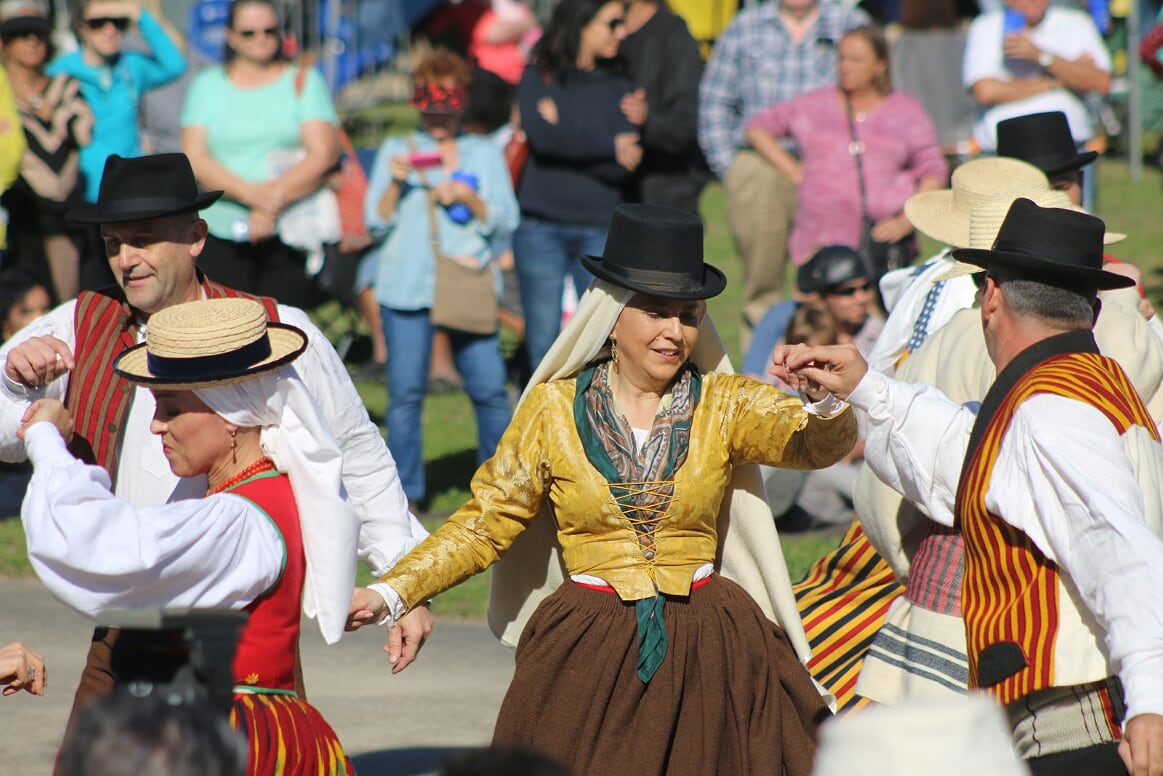 Los Majuelos, a Canary Island folkloric group, preforming at the Fiesta de los Isleños 2018